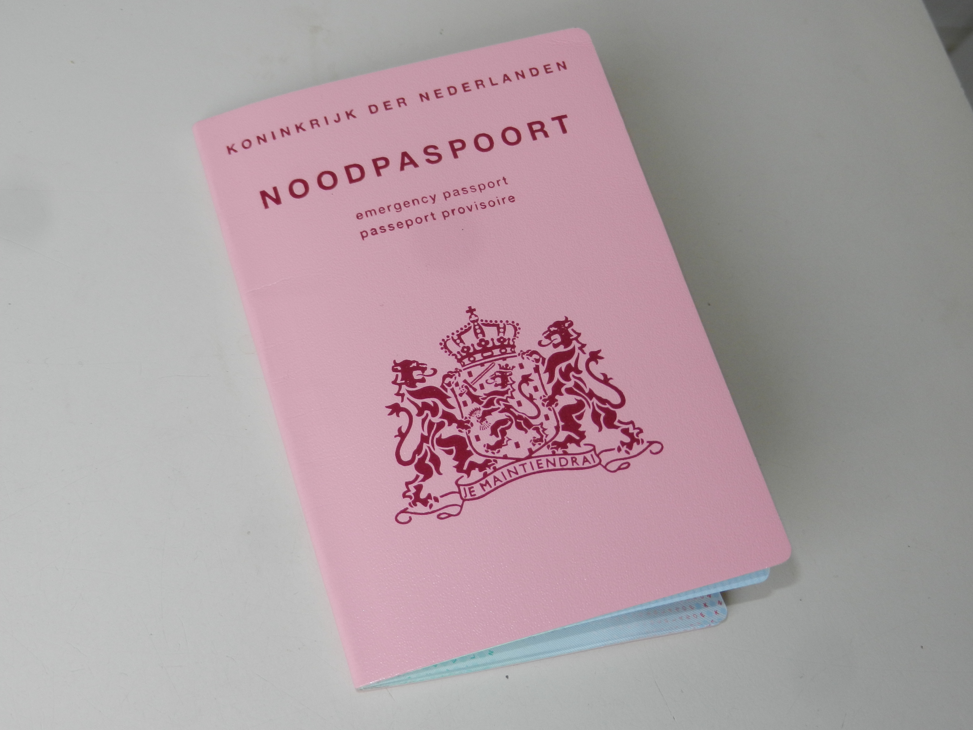 Emergency passport of the Kingdom of the Netherlands